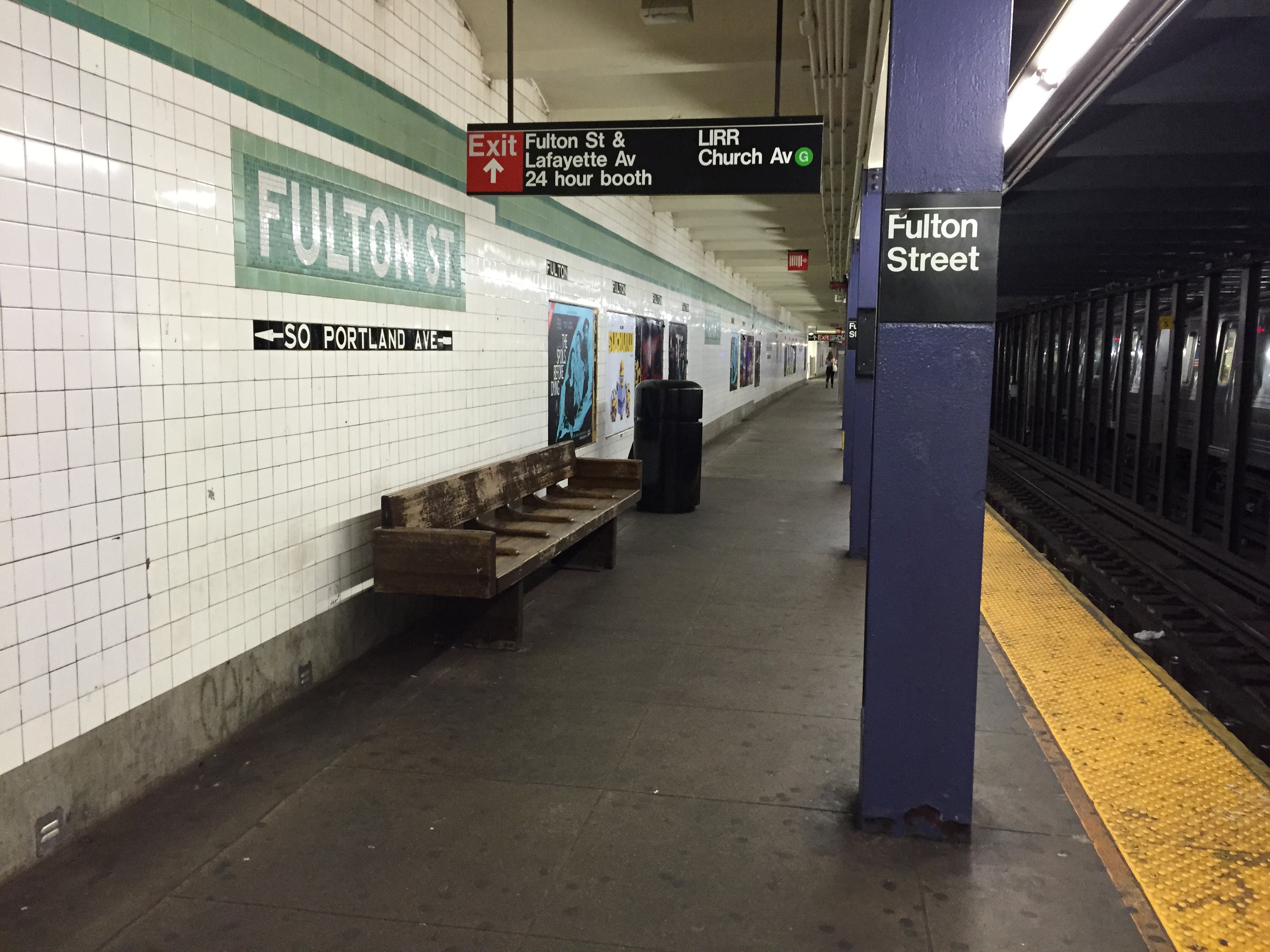 Queens bound platform at Fulton Street on the G.